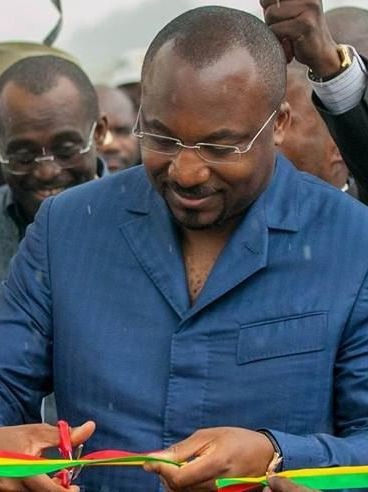 Denis-Christel Sassou Nguesso in Brazzaville (28 August 2018)